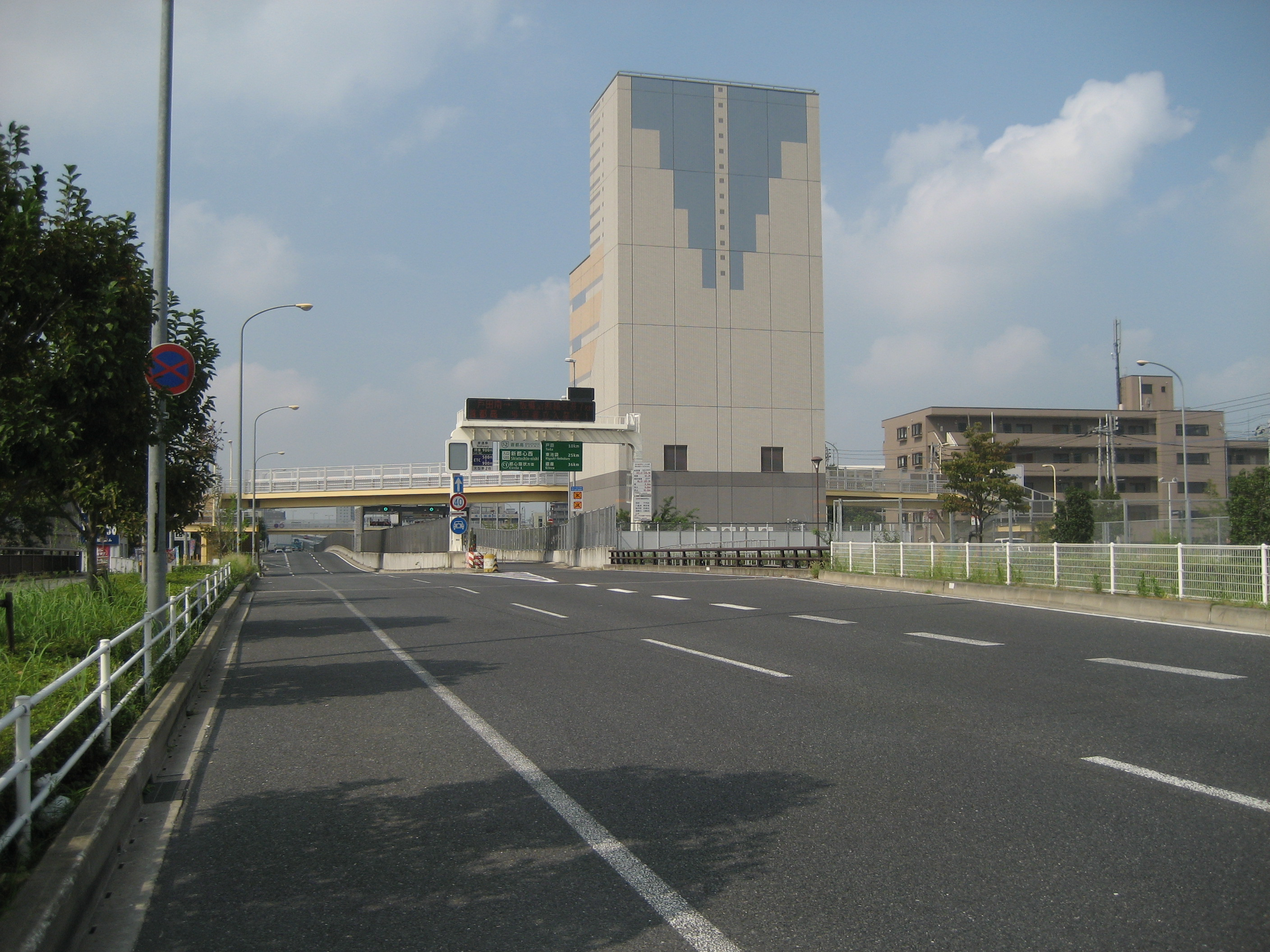 Shintoshin-nishi Interchange on the Metropolitan Expressway Route S2, entrance for Tokyo